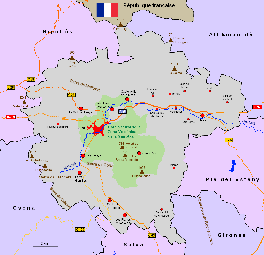 Map of the comarca Garrotxa, Catalonia, Spain